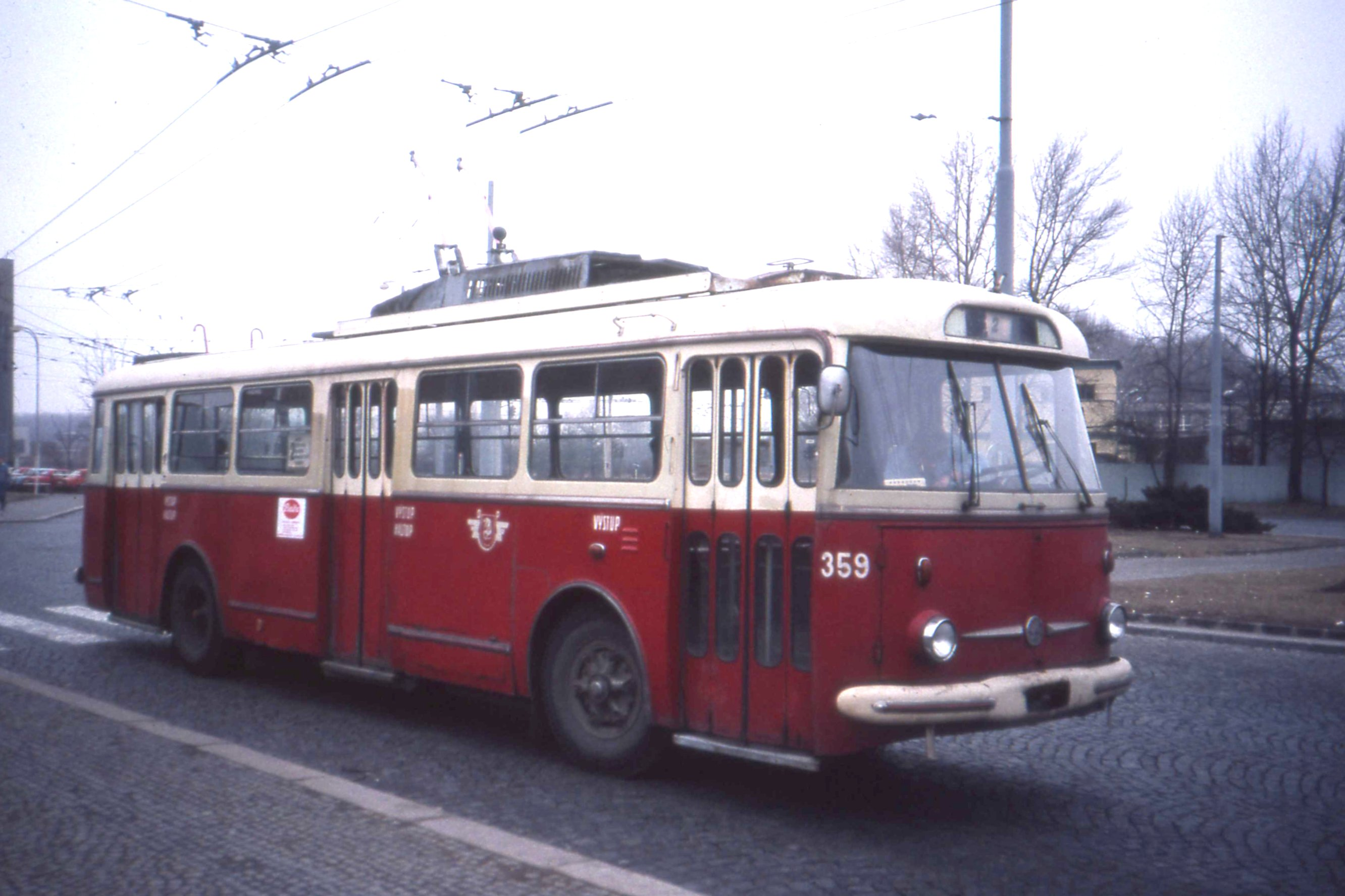 Škoda 9Tr trolleybus in Pardubice, former Czechoslovakia. Fleet No 359 in Pardubice was at that time a 1980 Skoda 9Tr which was withdrawn a year or two later. operator - Dopravní podnik města Pardubic, a.s. Several historical vehicles are owned, including ex-Prague 494, a Skoda 8Tr trolleybus and two similar 9Tr vehicles, numbered 353 and 358 The former was new to DP Pardubice in 1979, passing to the historic vehicle concern Pardubický spolek historie železniční dopravy in 1998 after withdrawal in 1995; the latter was new in 1980 and remains with the DP Pardubice undertaking. Pardubický spolek historie železniční dopravy also runs a rare Sanos-Skoda trolleybus, ex-Zlin 329 in 2003.